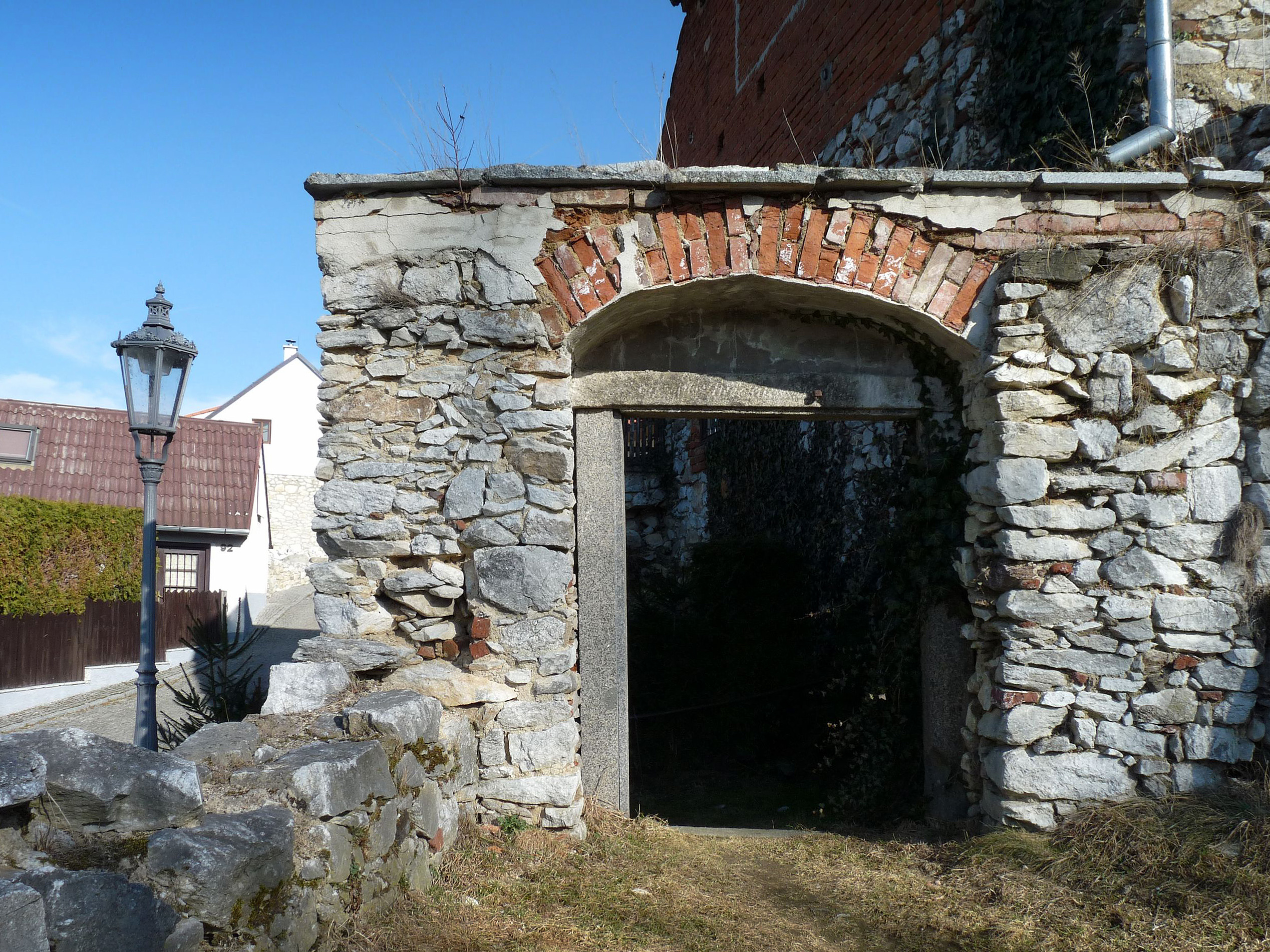 Jewish cemetery in the town of Rabí, Klatovy District, Czech Republic - the entrance